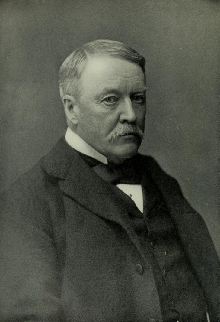 Portrait of Alexander Johnston Cassatt